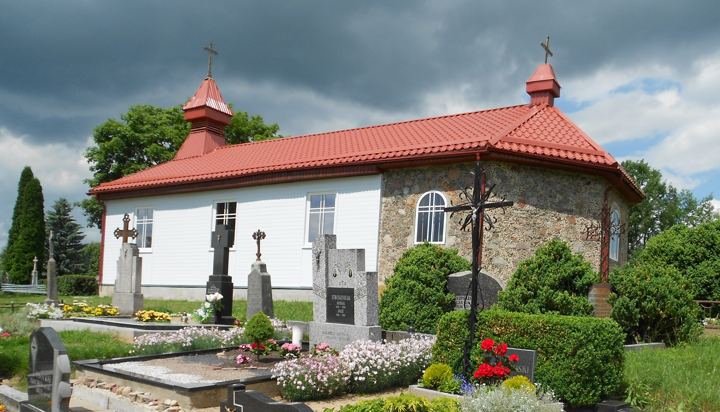 Back of church in Liubavas, Lithuania